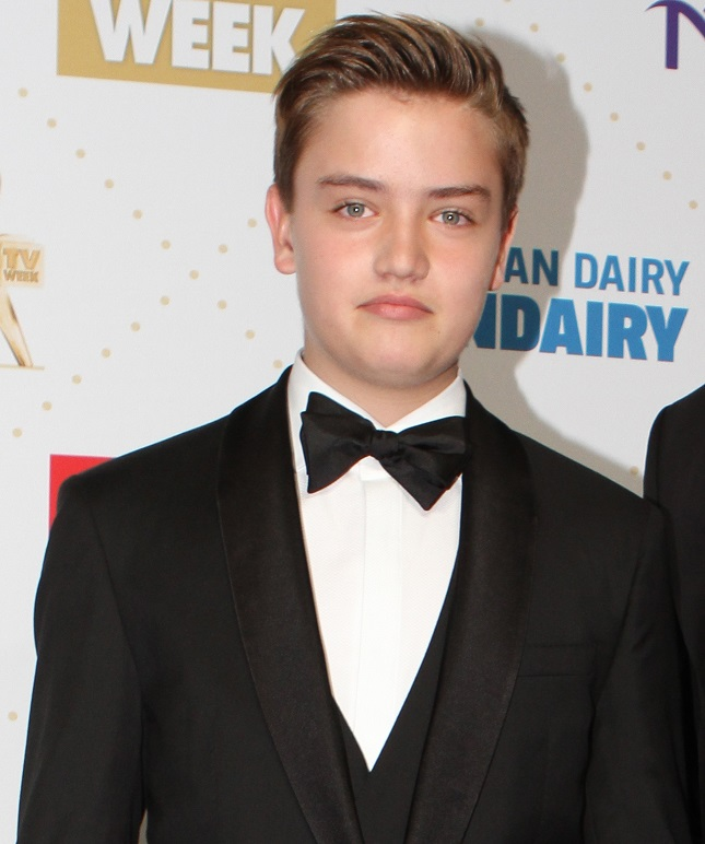 Alexander McGuire at the 58th Annual Logie Awards at Crown Palladium on May 8, 2016 in Melbourne, Australia